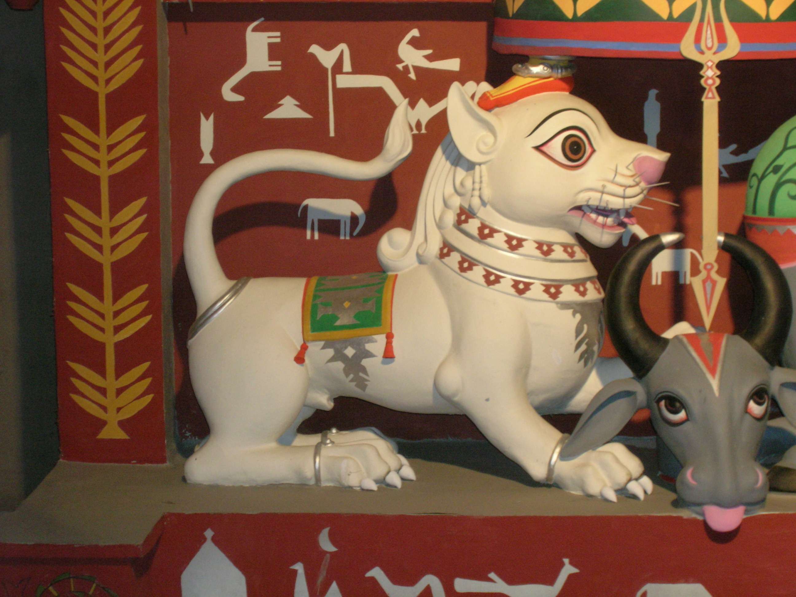 Great Lion at Hatibagan Nabin Palli, North Kolkata, 2010.